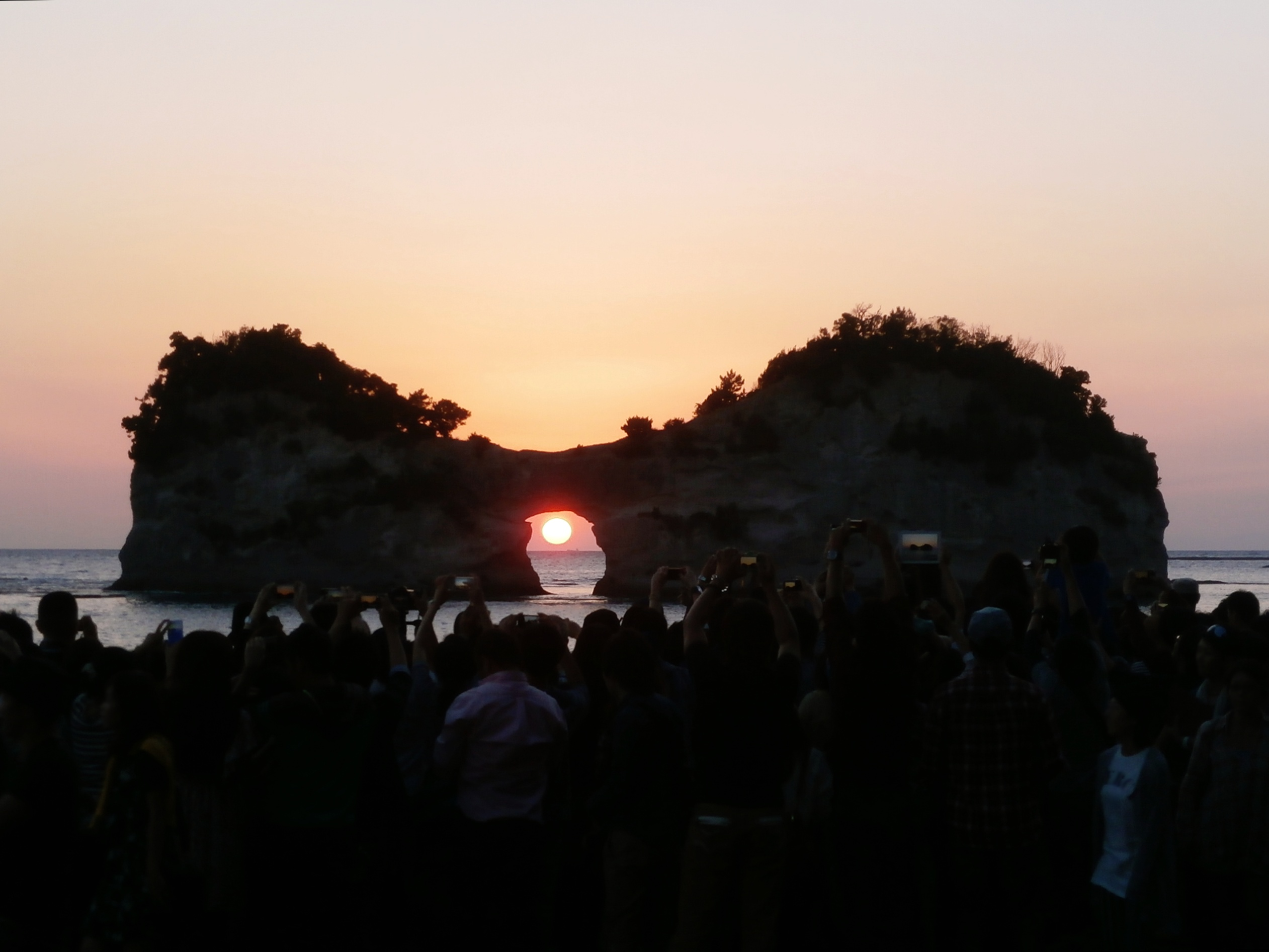 Engetsu Island in Shirahama, Wakayama prefecture, Japan.